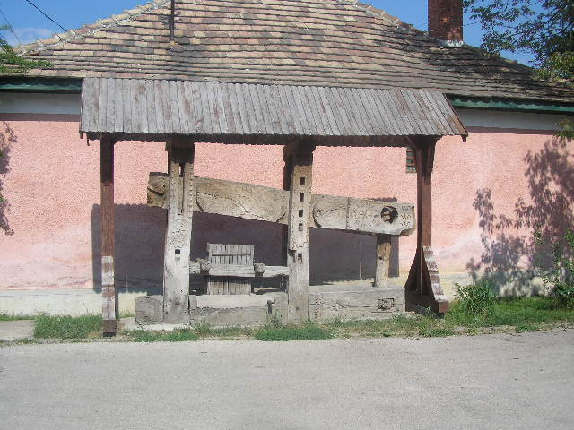 Bakonycsernye, wine press